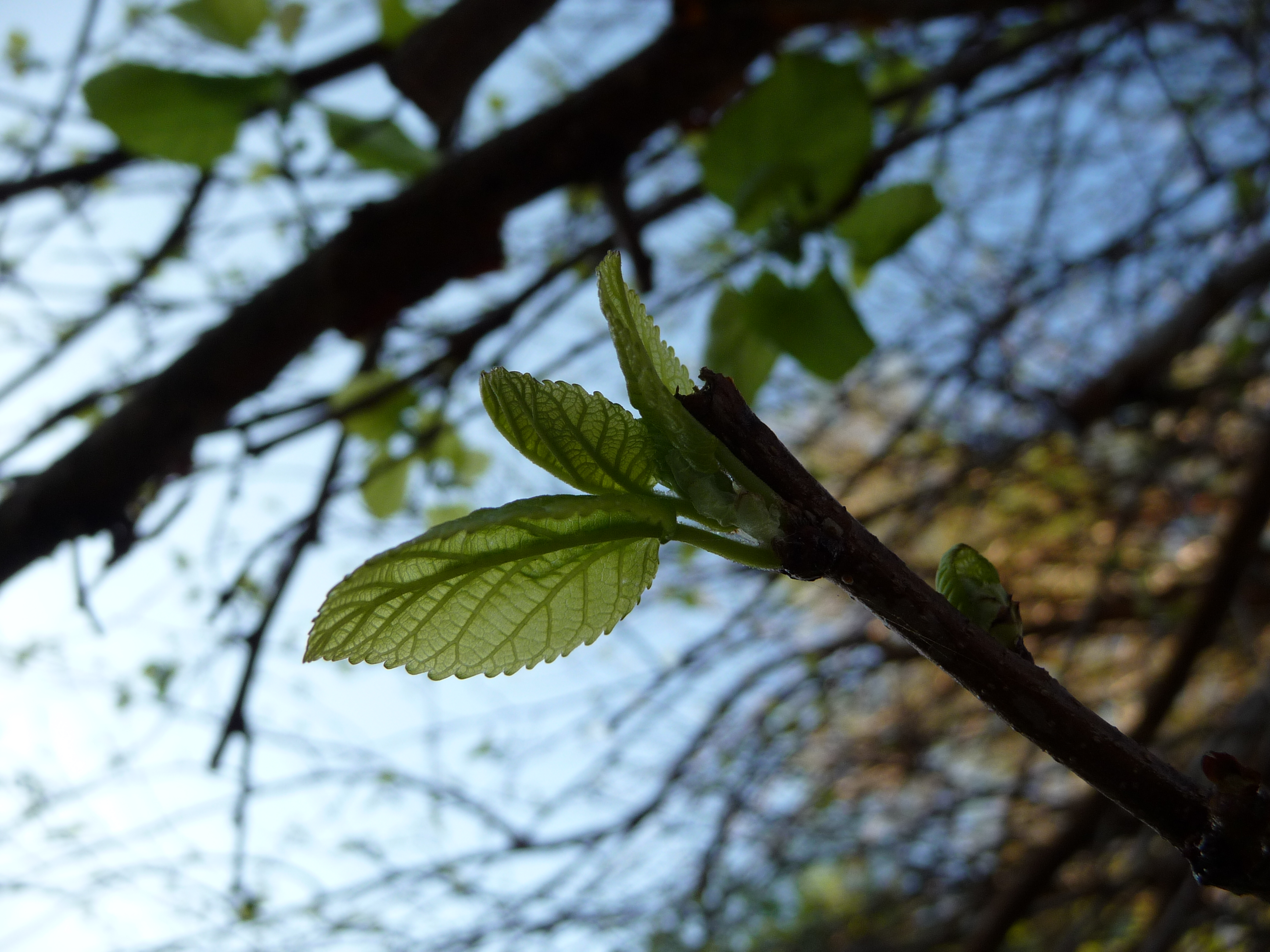 Beit Oren is a kibbutz in northern Israel. It falls under the jurisdiction of Hof HaCarmel Regional Council.